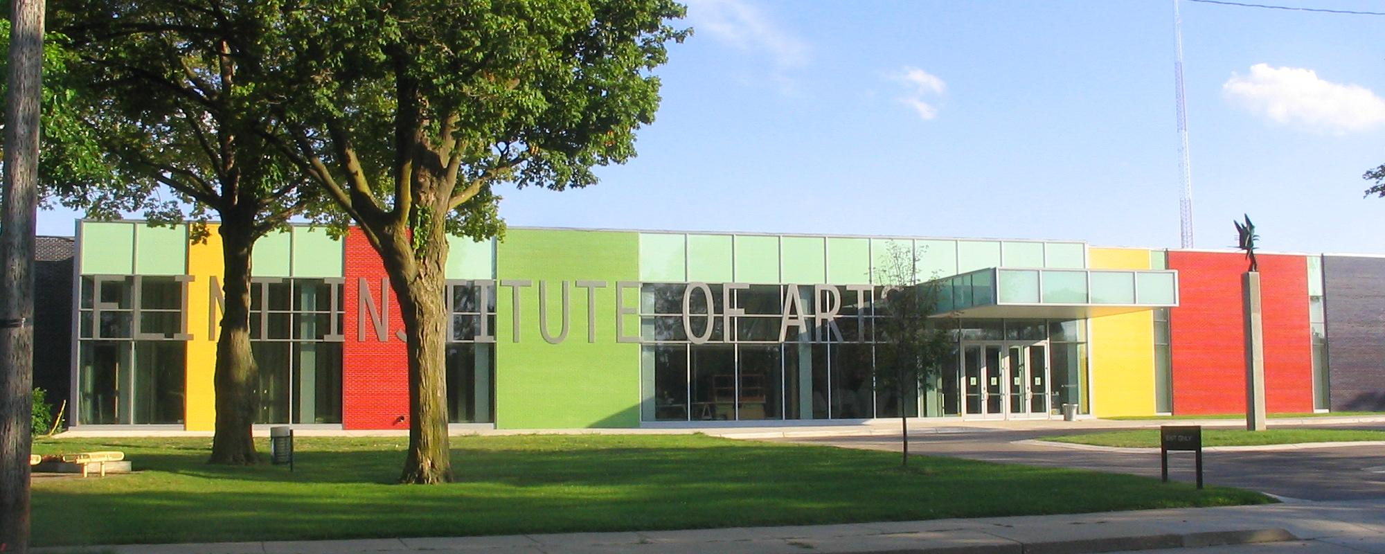 Photo taken by Connor Coyne, August 2006. Released to Public Domain. The Flint Institute of Arts was founded in 1928 and is a member of the Flint Cultural Center. It was recently renovated and reopened with an expanded connection in September 2006.